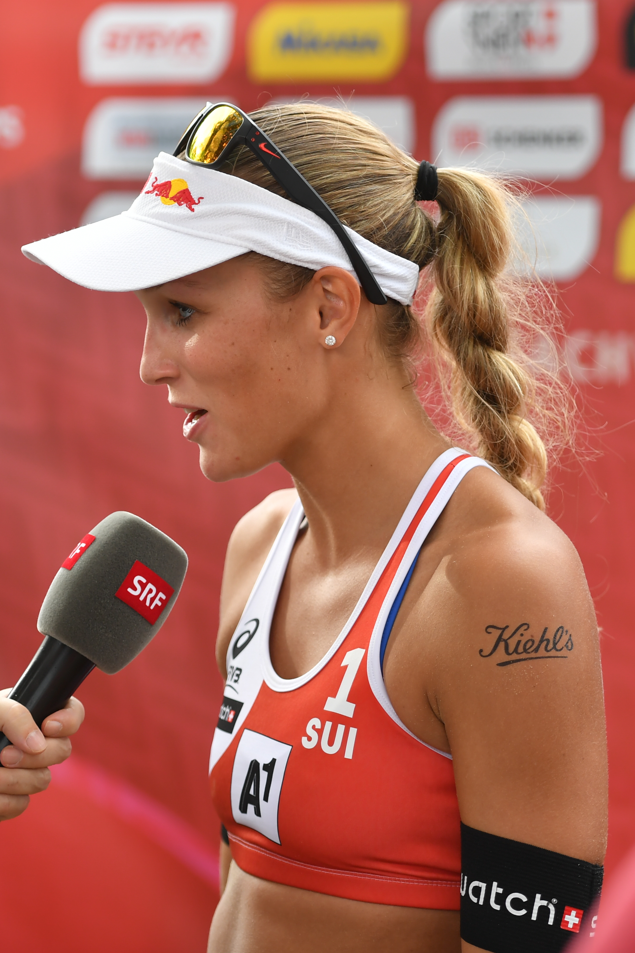 28/7/17, Vienna, Austria, sports, beach volleyball, FIVB Beach Volleyball World Championships.